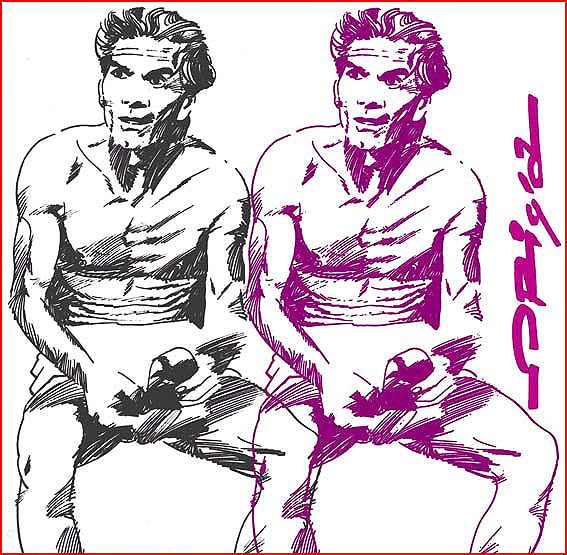 Pier Paolo Pasolini, portrait by italian artist Graziano Origa, pen&ink, 1976